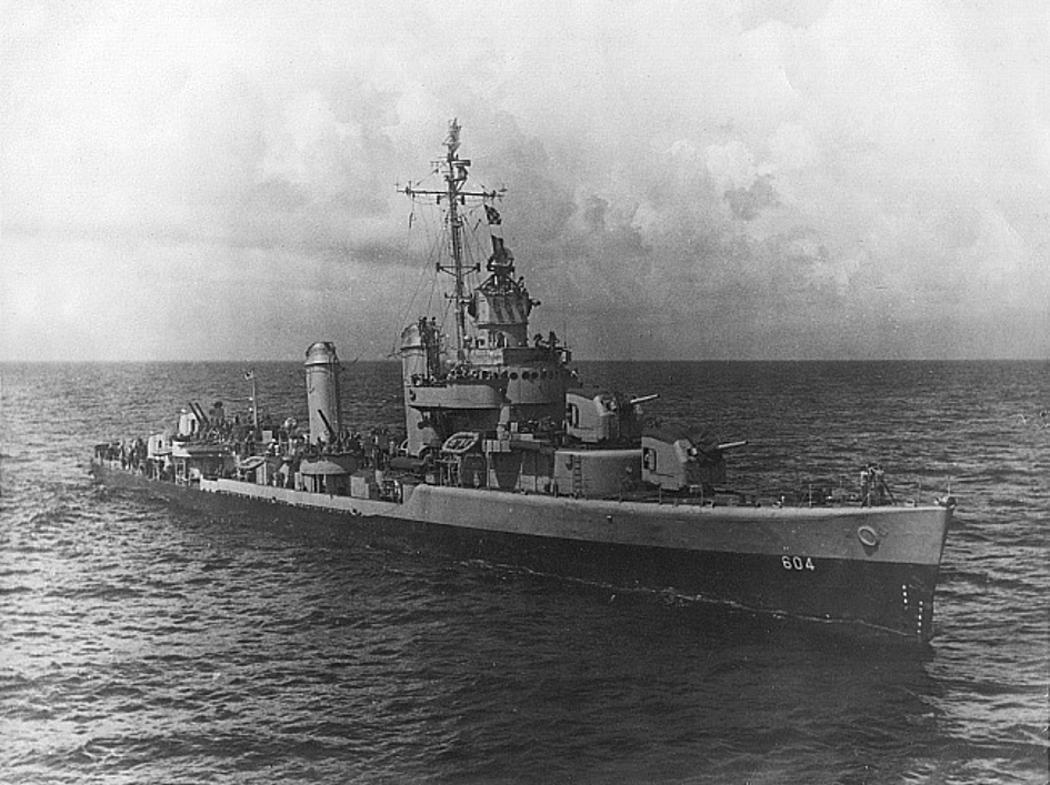 The U.S. Navy destroyer USS Parker (DD-604) at sea.Note: the date given is 12 May 1942. However, Parker was launched on that date and only commissioned on 31 August 1942.